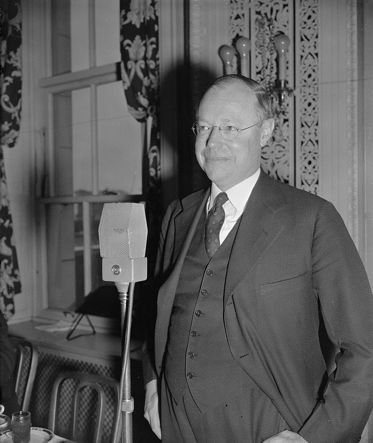 New Senator Robert Taft of Ohio speaks to the Washington Press Club.